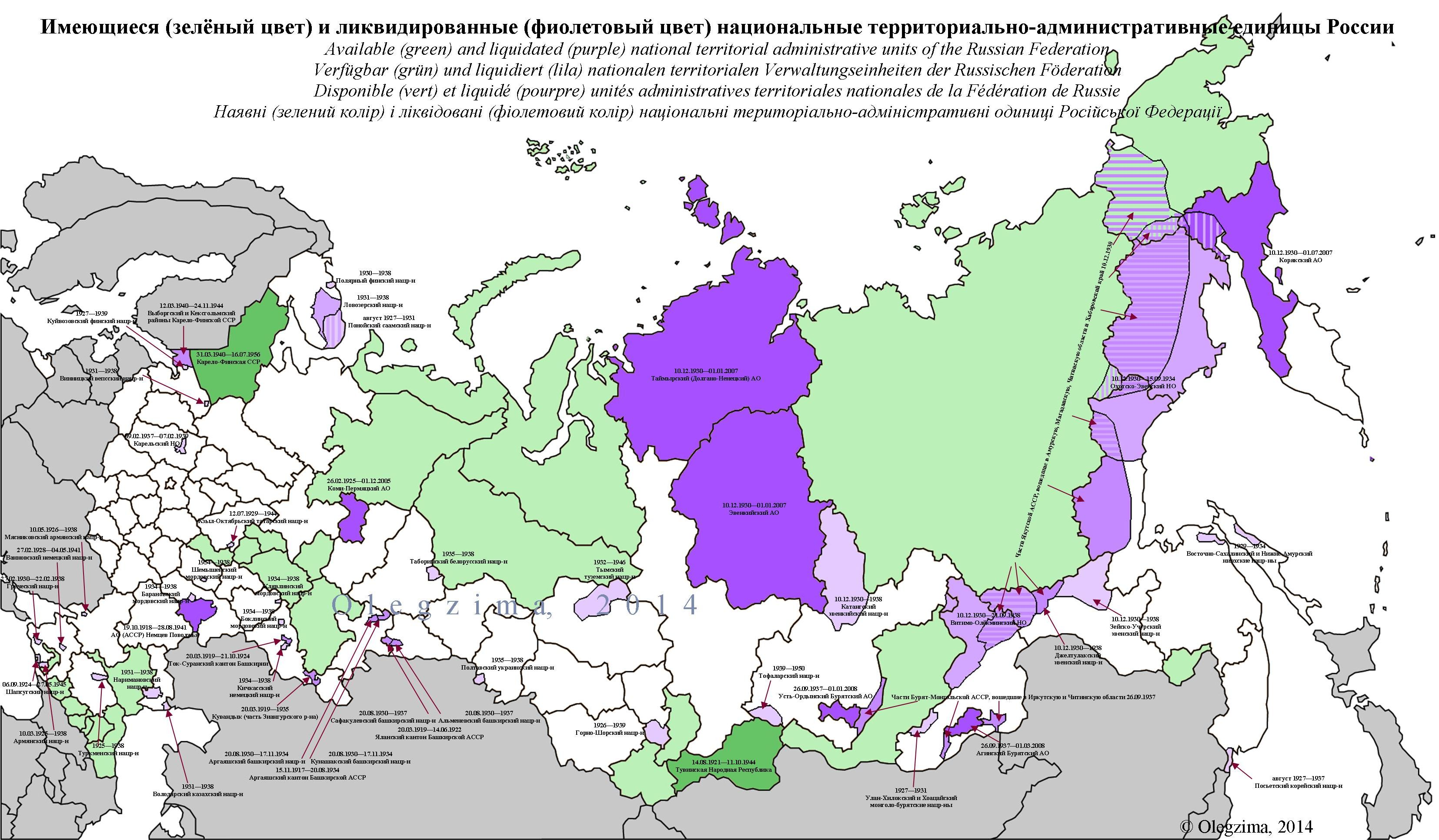 Available and liquidated national territorial administrative units of the Russian Federation